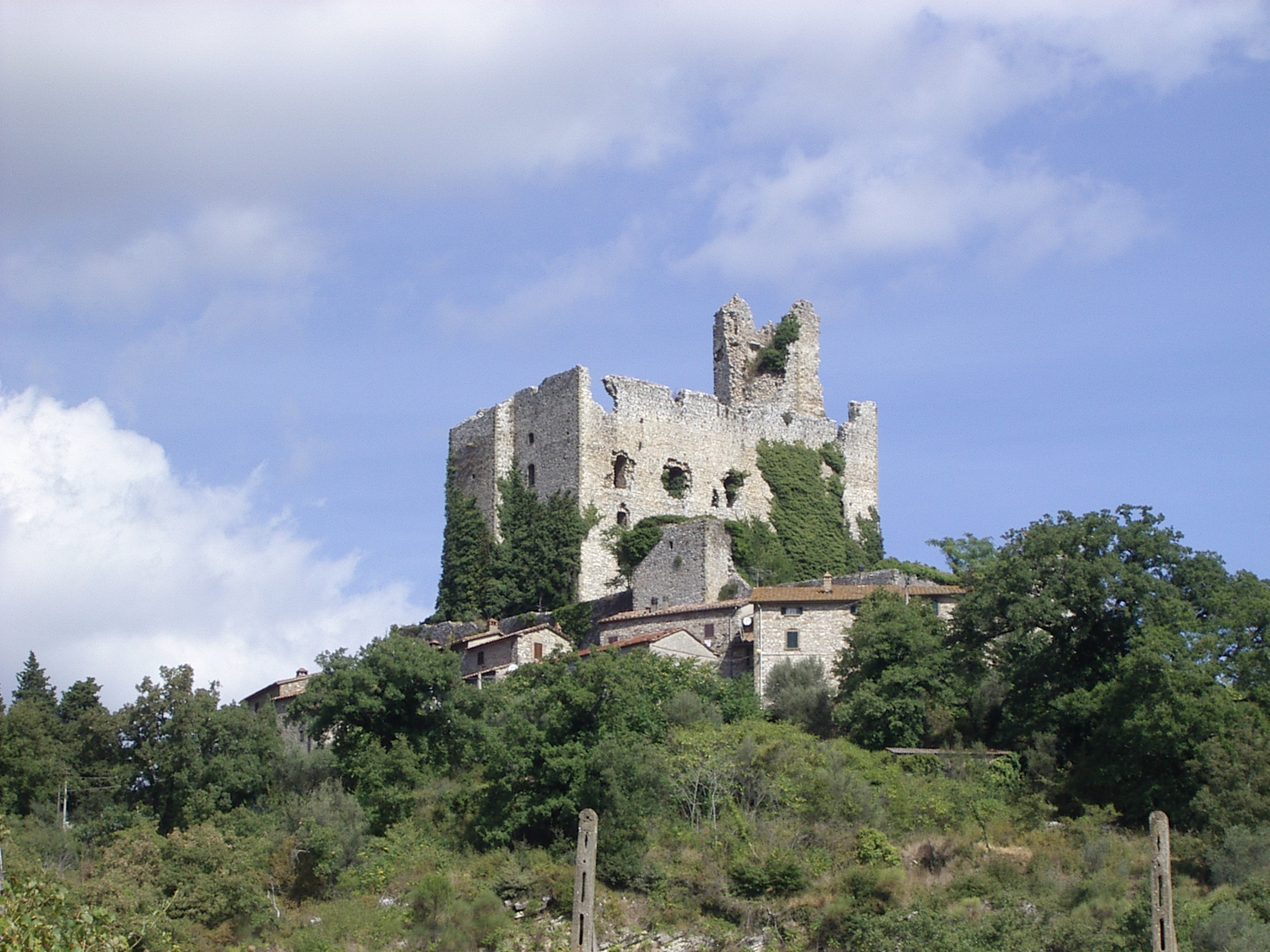 Castle of Pierle Cortona, Arezzo, Tuscany, Italy